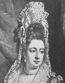 Portrait of Mary II of England in a fontange headdress (lace stiffened with wire)